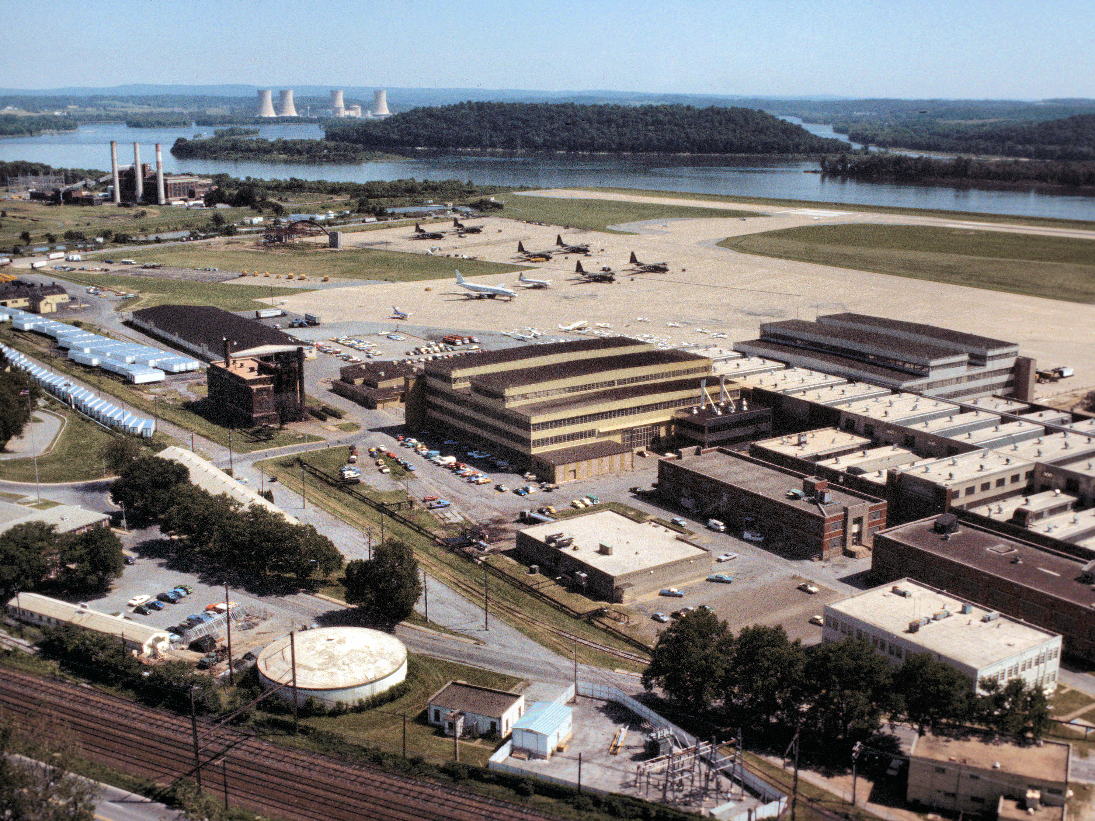 Olmstead ANGB - May 1979